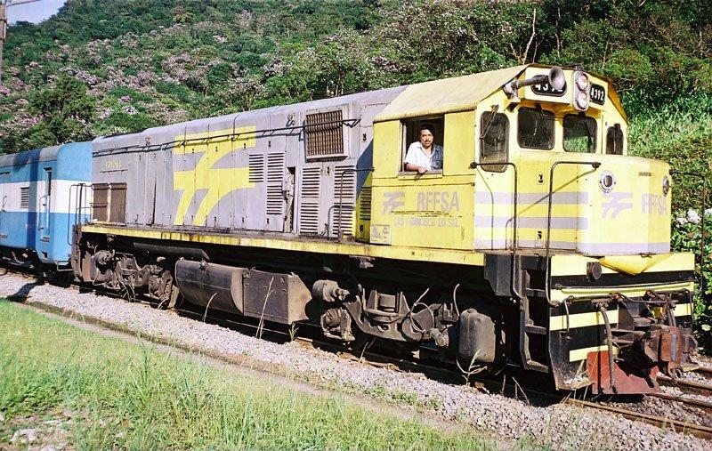 Rede Ferroviária Federal S.A. MACOSA G22U #4392-6L Photographed by - Heron Soares at the Ferrovia Curitiba-Paranaguá. Locomotive working at de Teresa Cristina Railroad - Paraná Brazil. Date unknown.